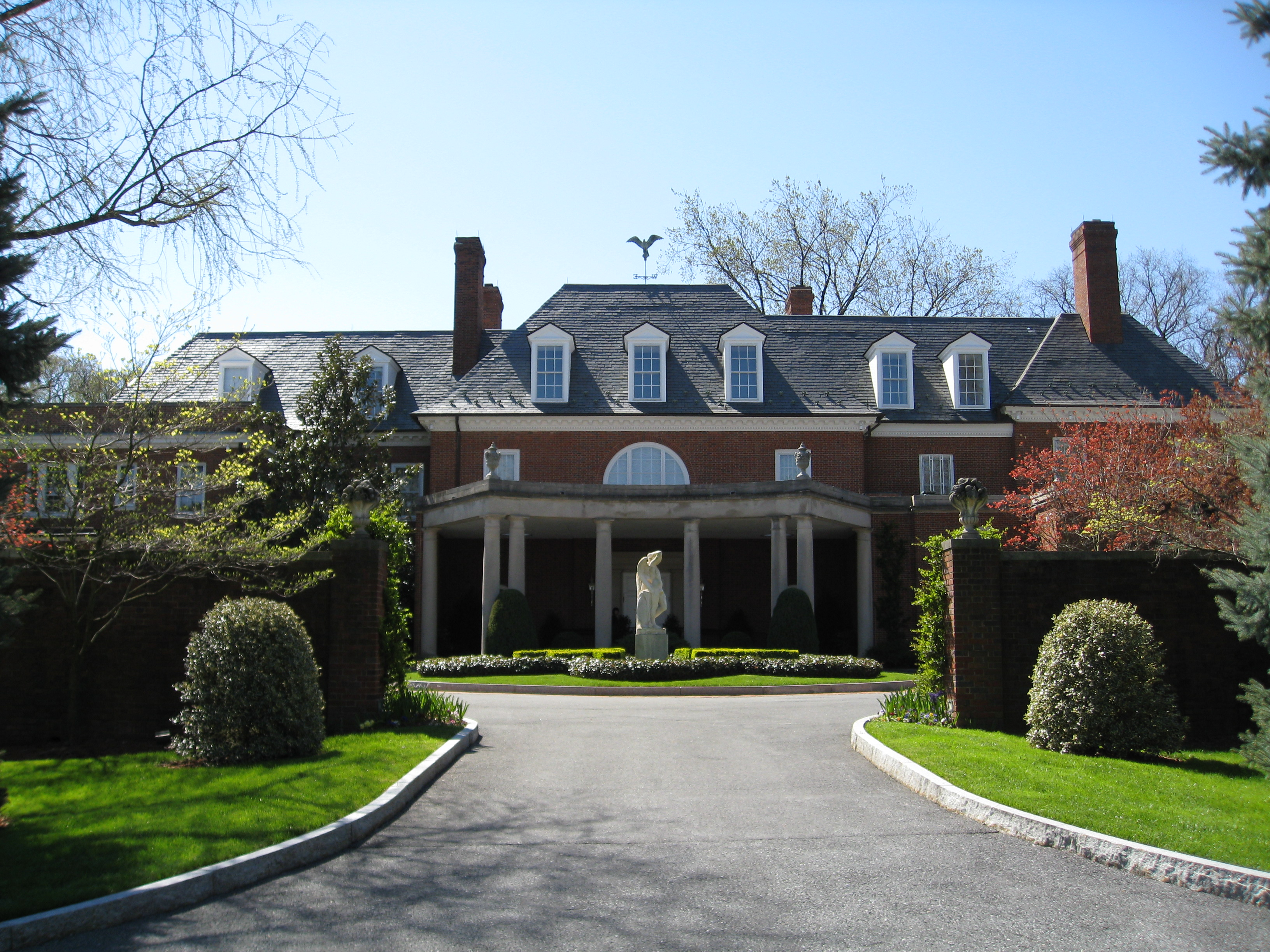 Hillwood Estate, Museum and Gardens, located at 4155 Linnean Avenue, NW Washington, DC. The estate is the former home and garden of Marjorie Merriweather Post. The museum features furnished rooms decorated with Post's collection of 18th and 19th century French art and art treasures from Imperial Russia. The house was originally known as Arbremont and was designed by John Deibert in 1926.